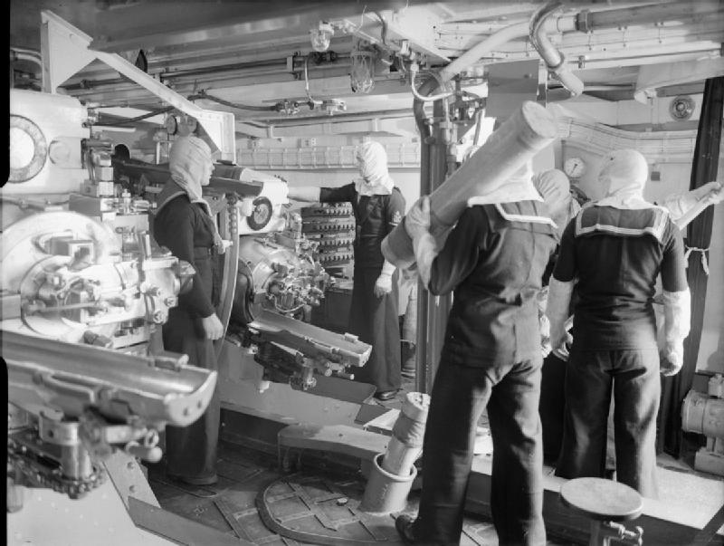 IWM caption : The interior of a 6 inch triple Mark XXIII mounting on board HMS JAMAICA. Note the crew wearing anti flash gear. From this angle you can see the centre and right 6 inch Mark XXIII guns of the three contained within this turret. The crew member in the foreground has over his shoulder a 30 pound cordite propellant charge. Note a further charge is emerging from the cordite hoist in the floor. It is still in its protective case.